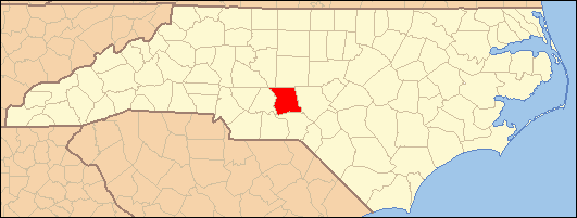 Locator map of Montgomery County — in North Carolina, Southeastern United States.